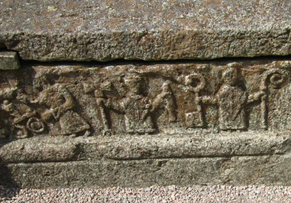 11th century artwork on a gravestone at the entrance of Husaby ChurchPlace: Götene, Sweden